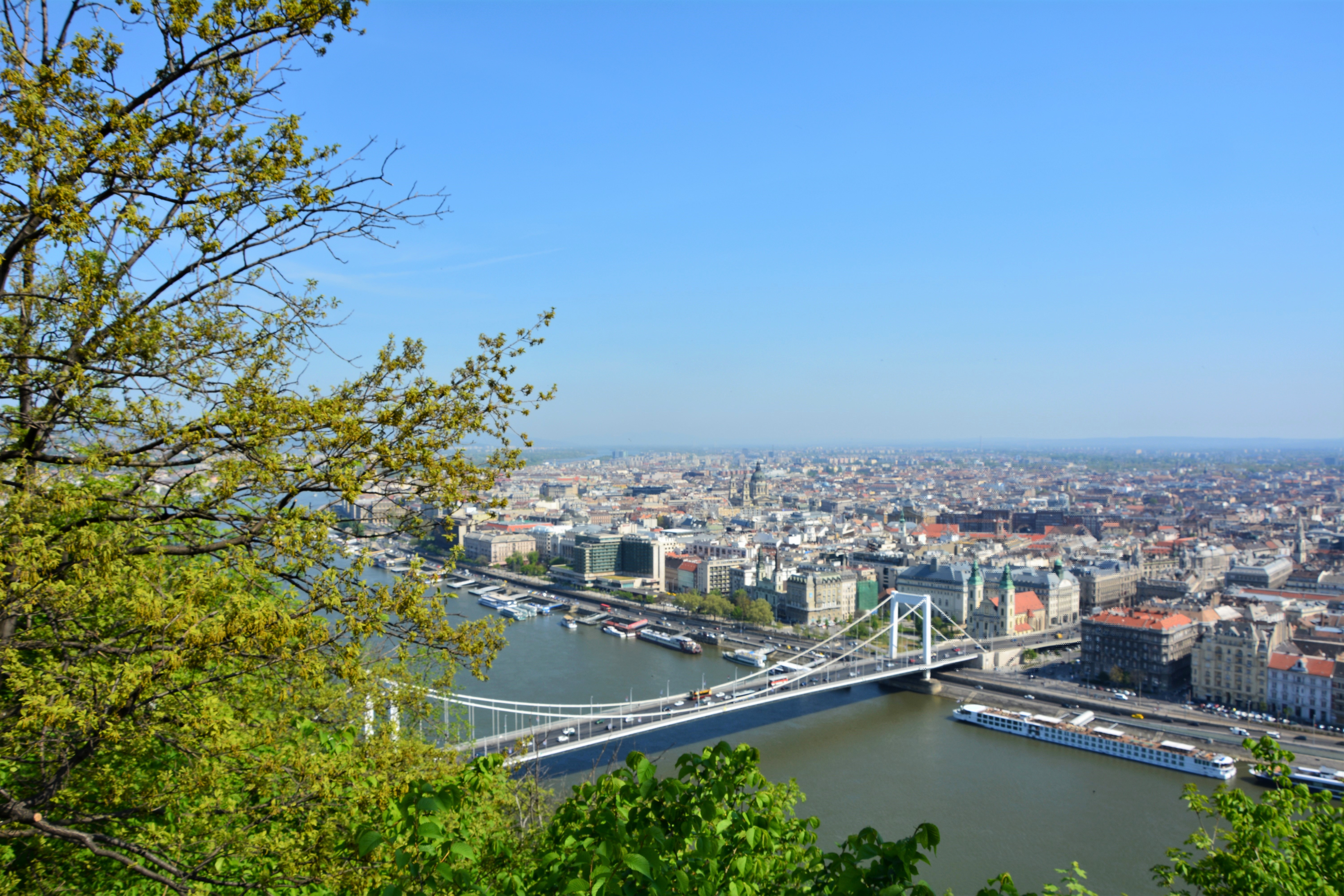 View from Gellért Hill to Elisabeth Bridge